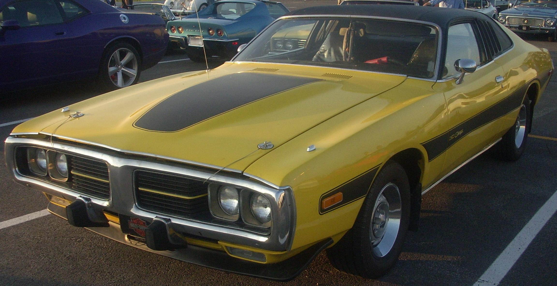 Dodge Charger photographed in Laval, Quebec, Canada at Centropolis Laval.